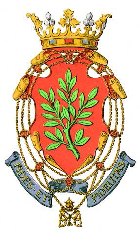 Lagergren COA